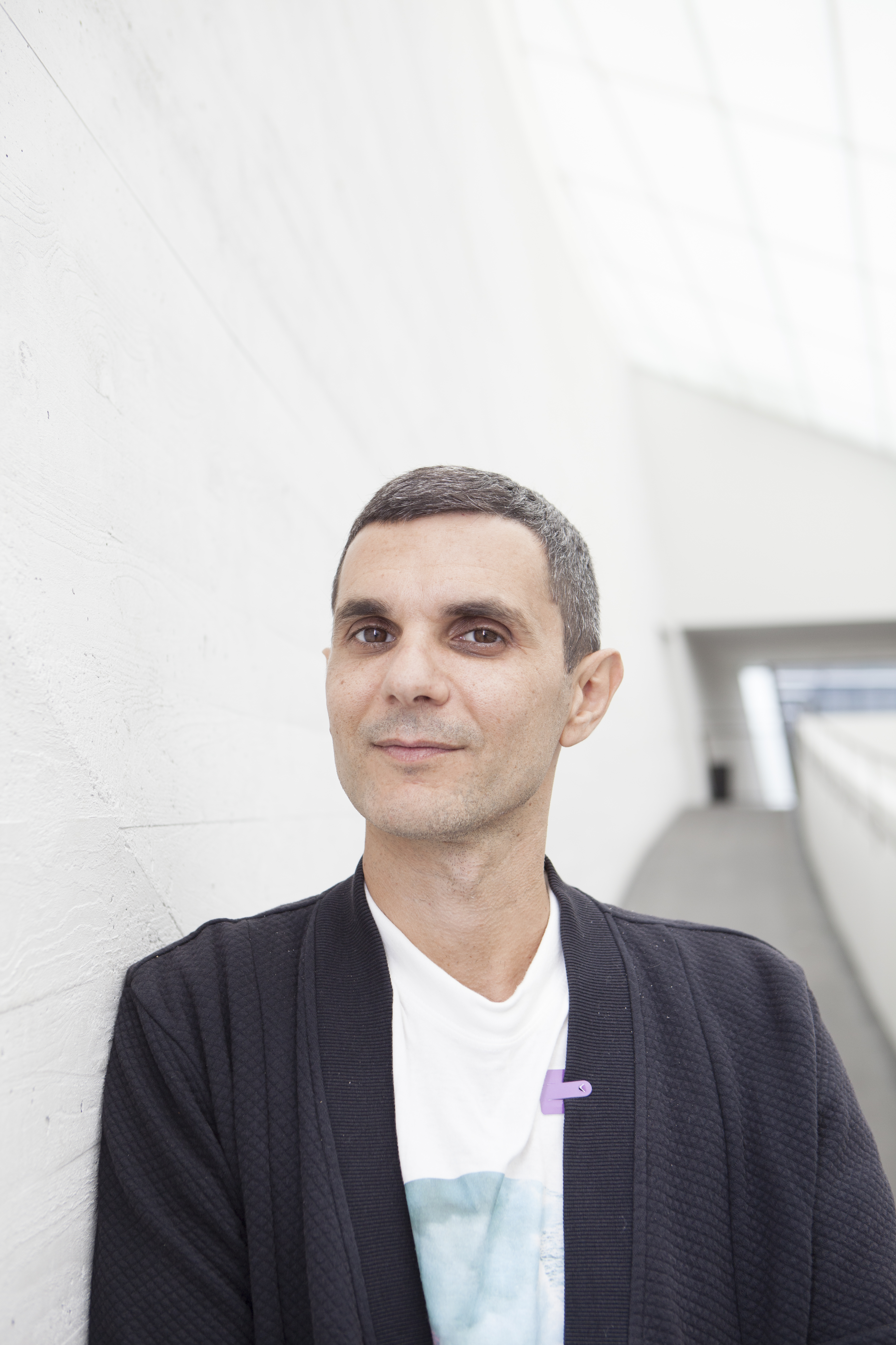 Artist_Angelo_Plessas_in_Kiasma PHOTO Finnish National Gallery /Pirje Mykkänen